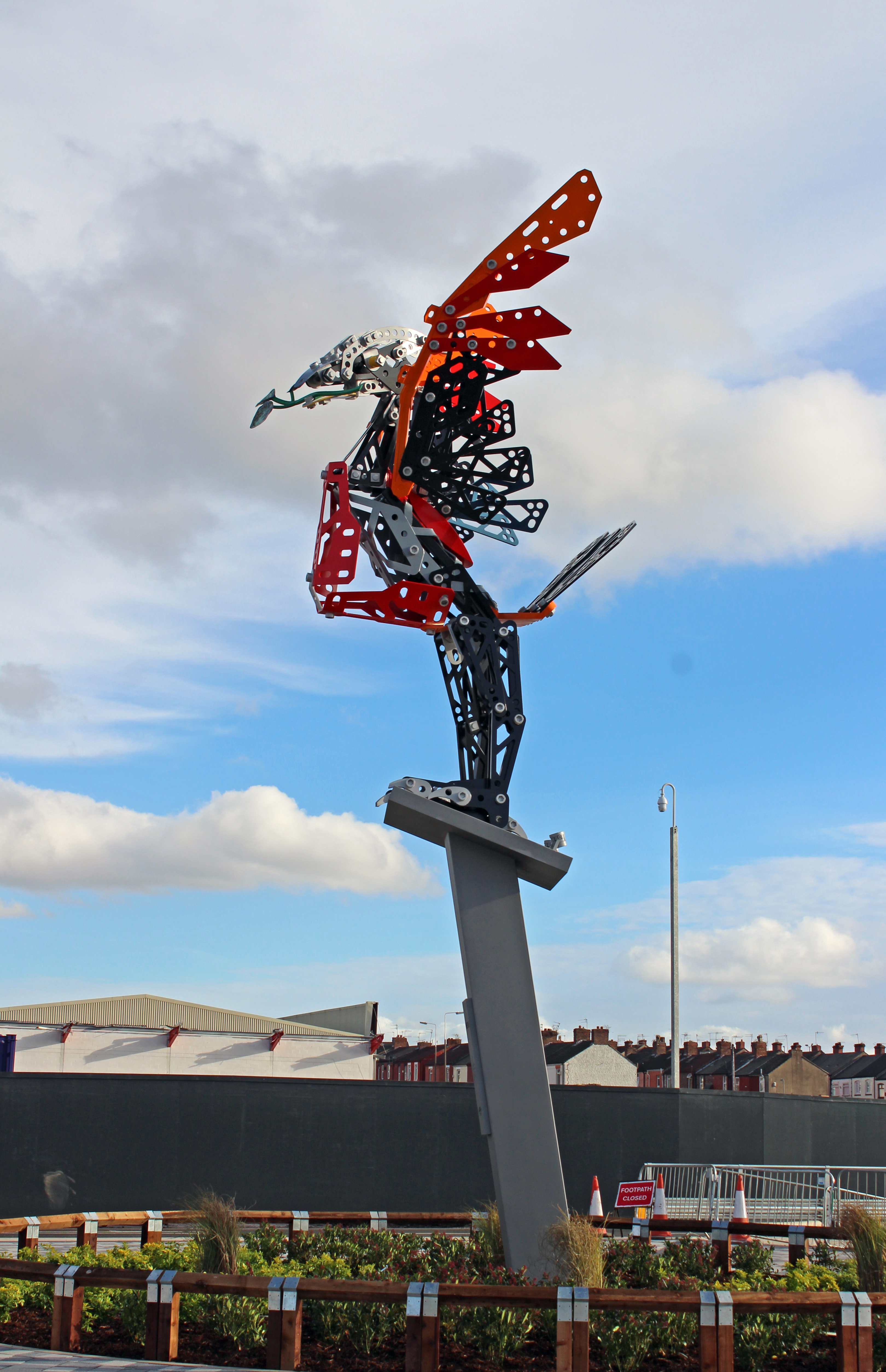 Left side (from the west)